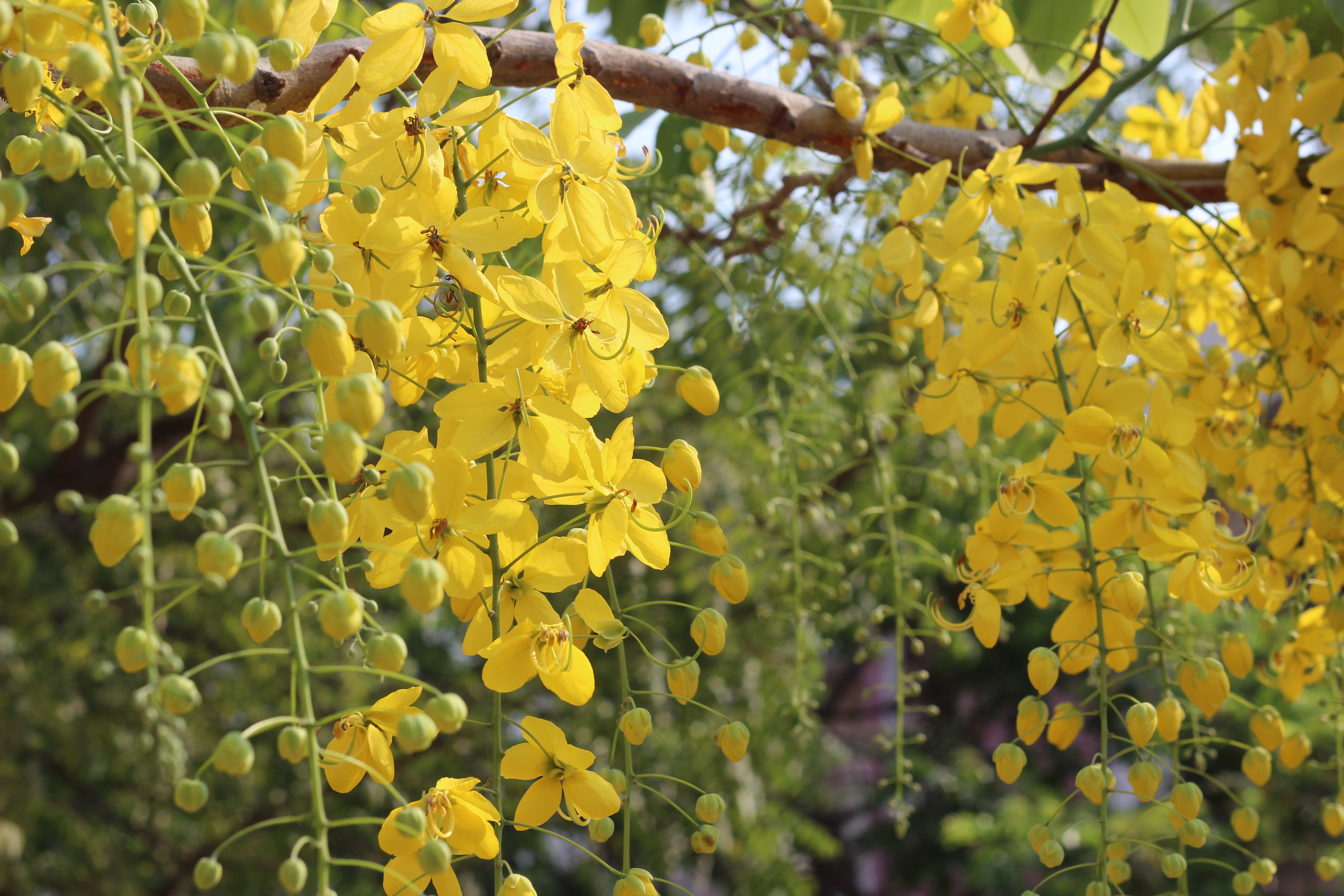 Cassia fistula అరగ్వద, రేల